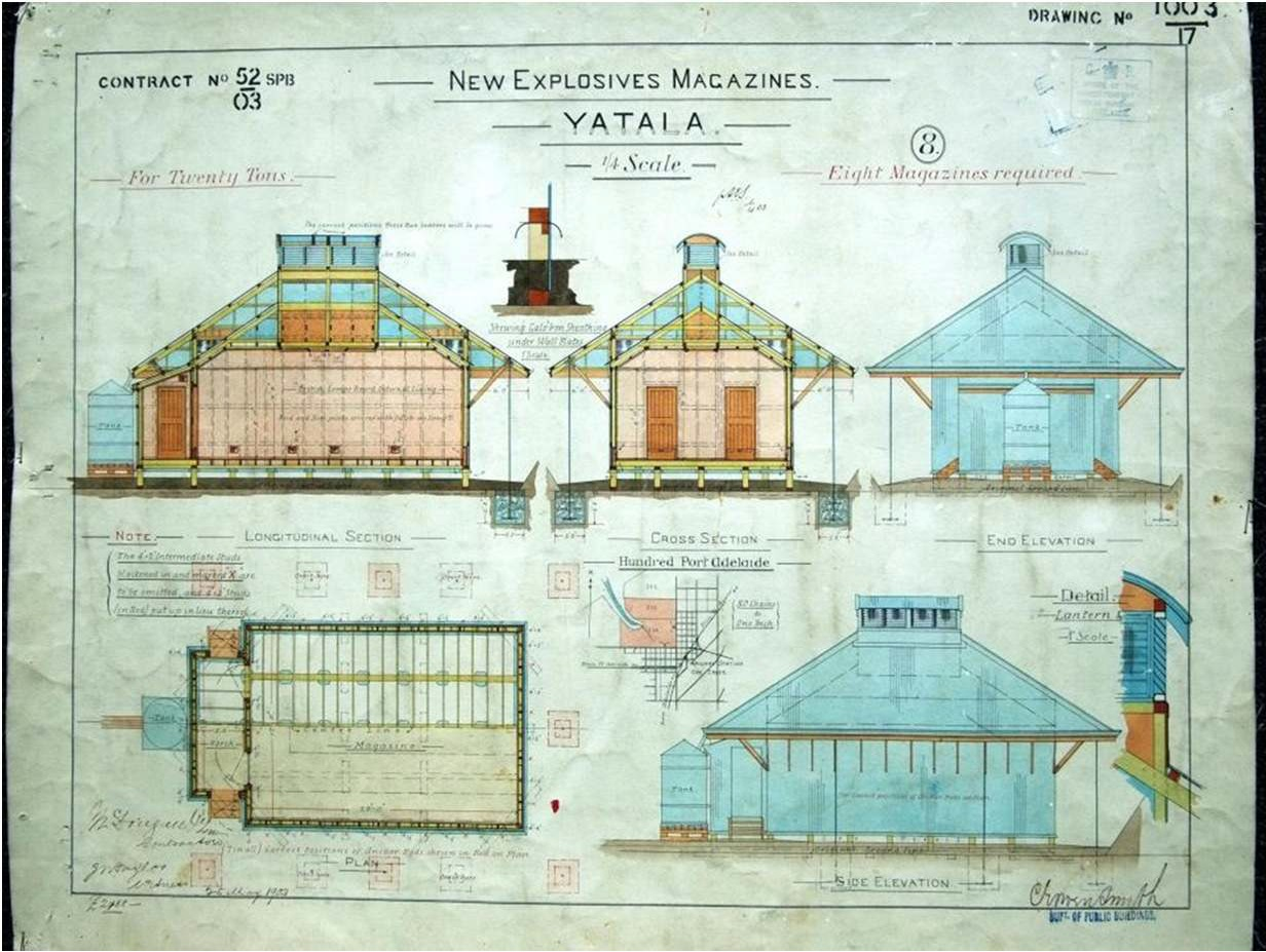 New Explosive Magazines Yatala